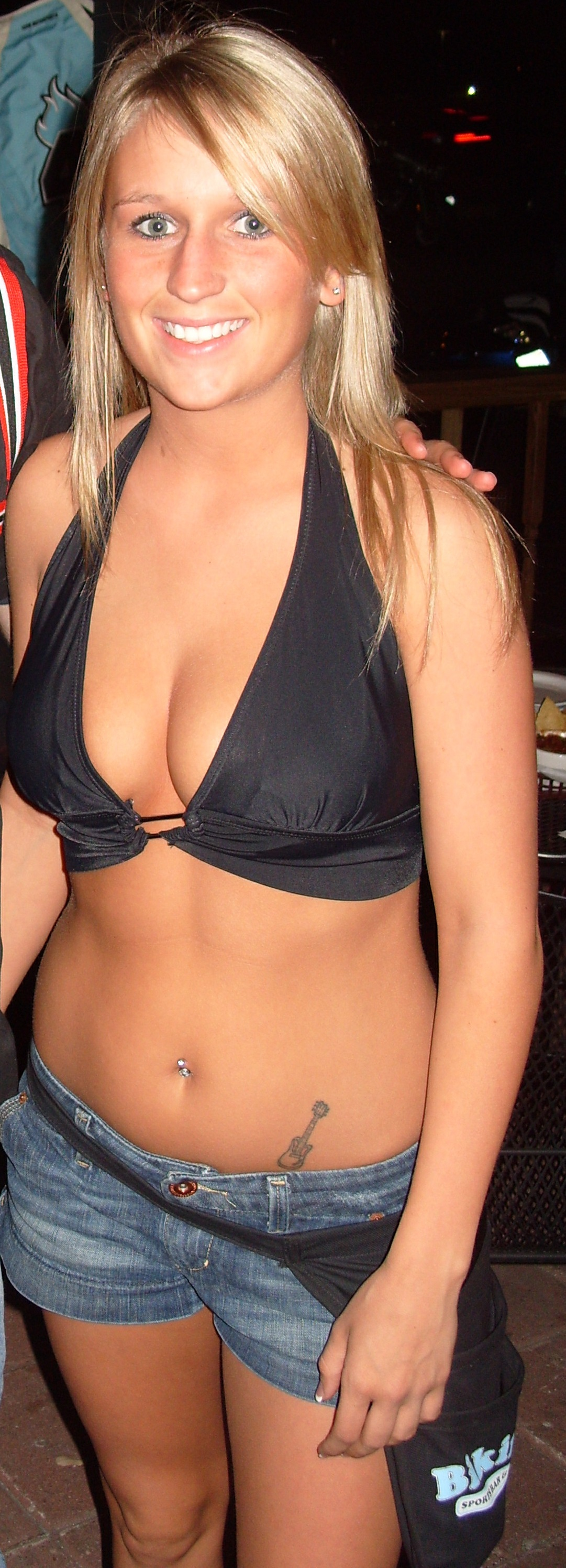 Bikinis Bar and Grill pose with musician